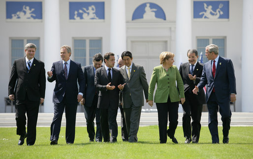 Leaders of the G8 walk across the grass en route to the official photograph Thursday, June 7, 2007, in Heiligendamm, Germany. From left are: Prime Minister Stephen Harper of Canada; Prime Minister Tony Blair of the United Kingdom; José Manuel Durão Barroso, President of the European Commission; President Nicolas Sarkozy of France; President Vladimir Putin of Russia; Prime Minister Shinzo Abe of Japan; Chancellor Angela Merkel of Germany; Prime Minister Romano Prodi of Italy, and President George W. Bush of the United States of America.